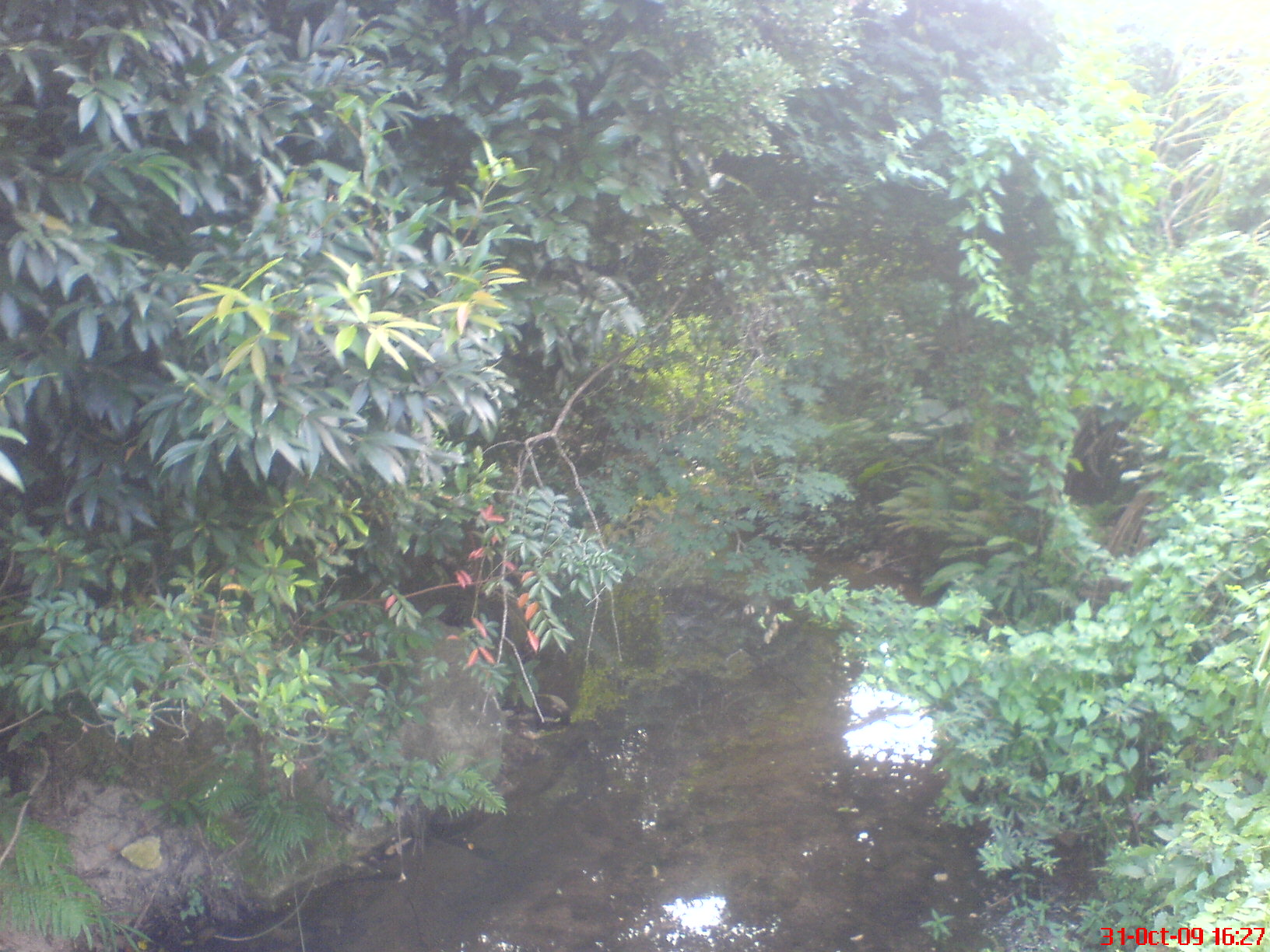 Upper-stream of Wang Tong river.